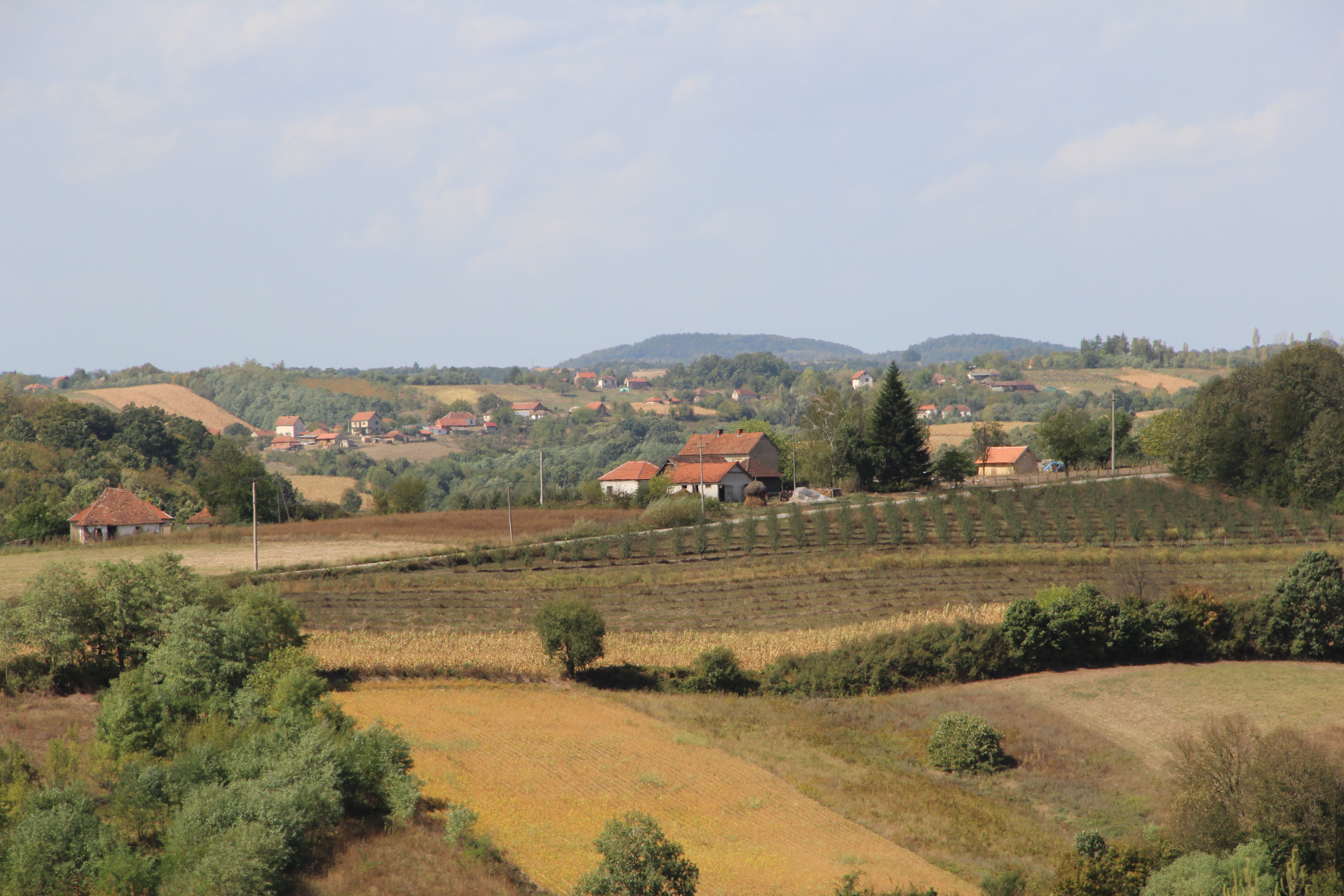 Blizonje village - Municipality of Valjevo - Western Serbia - Panorama 1